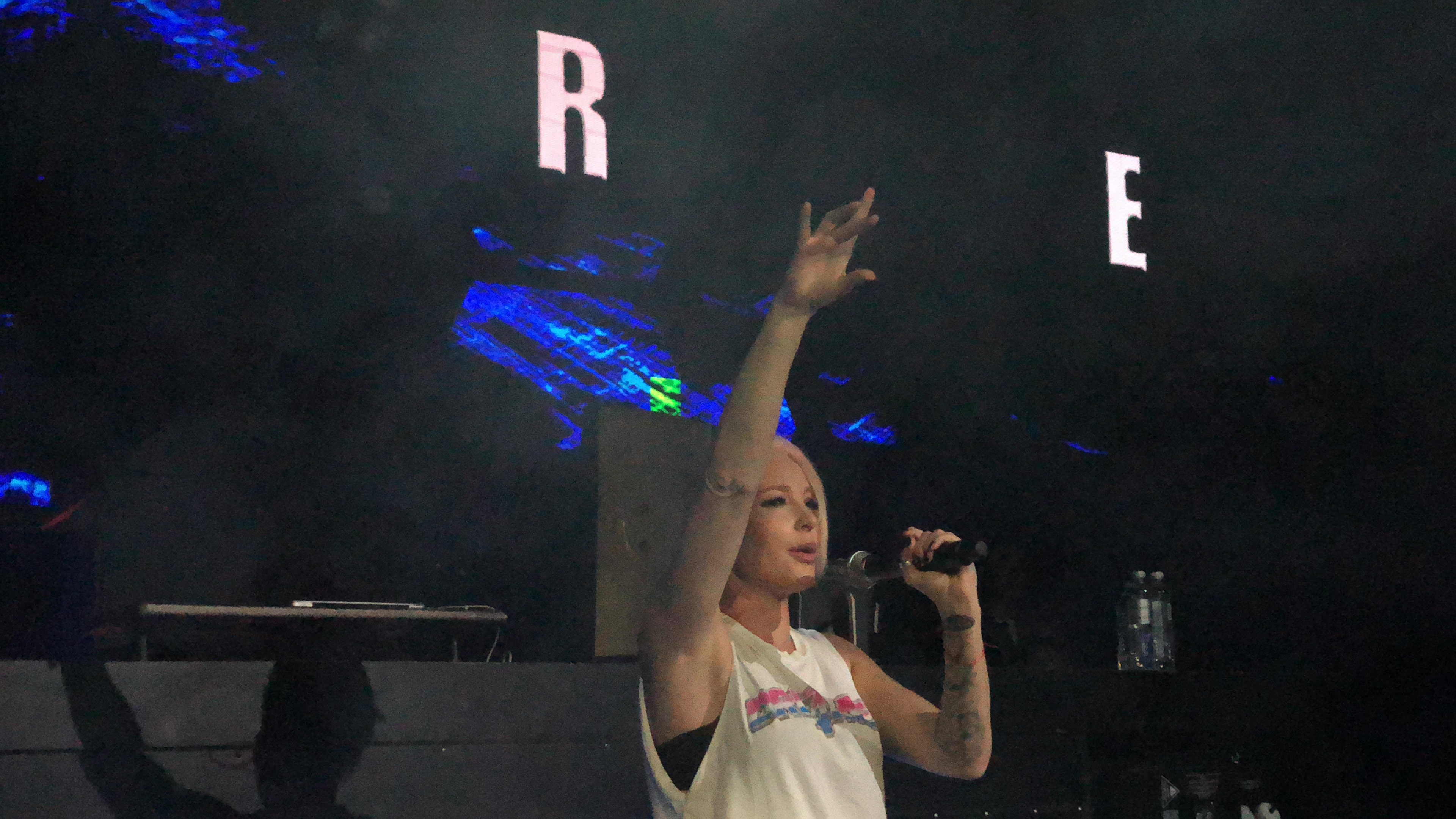 Emma Hewitt at Pure Nightclub